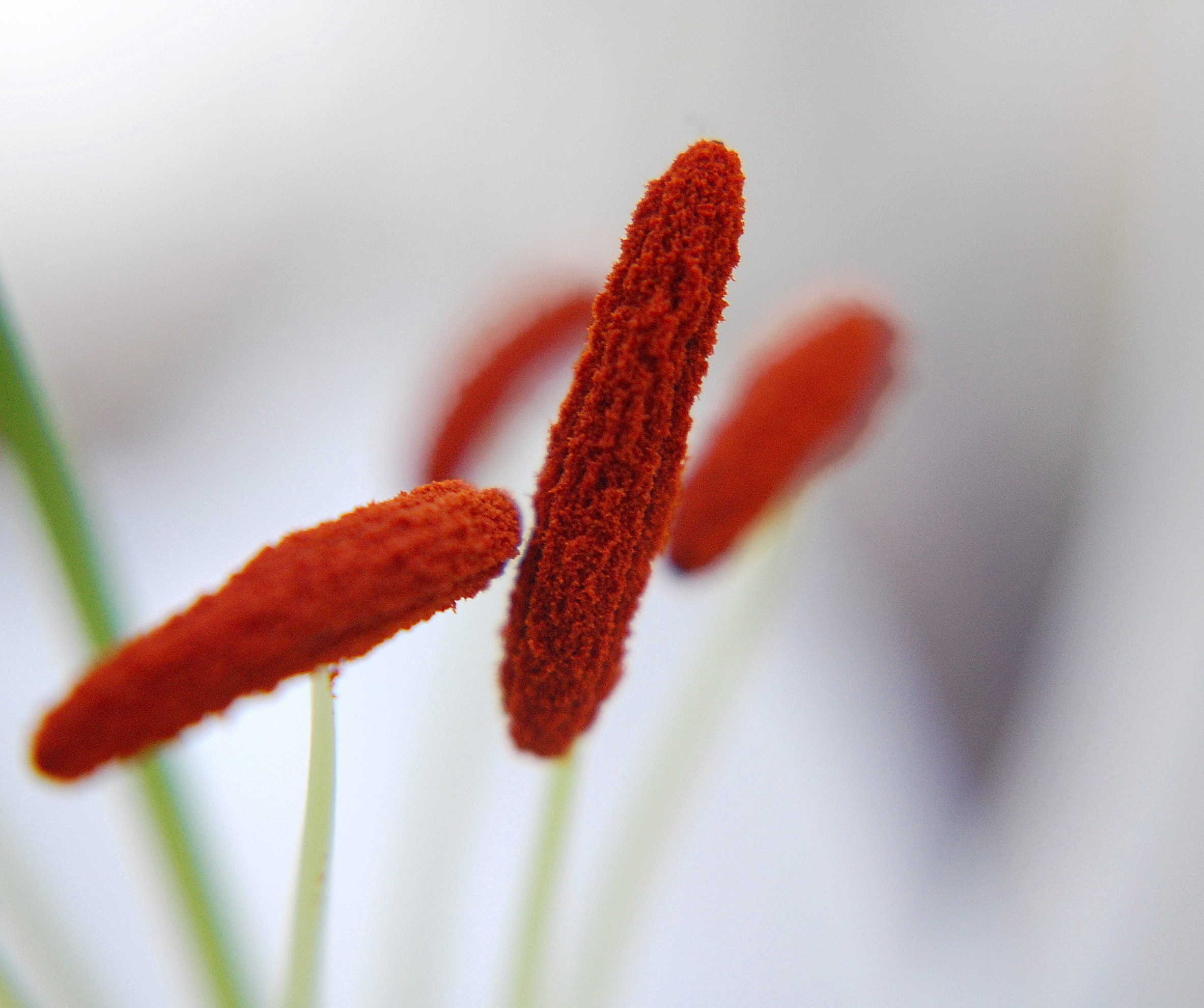 Macro of lily stamens.